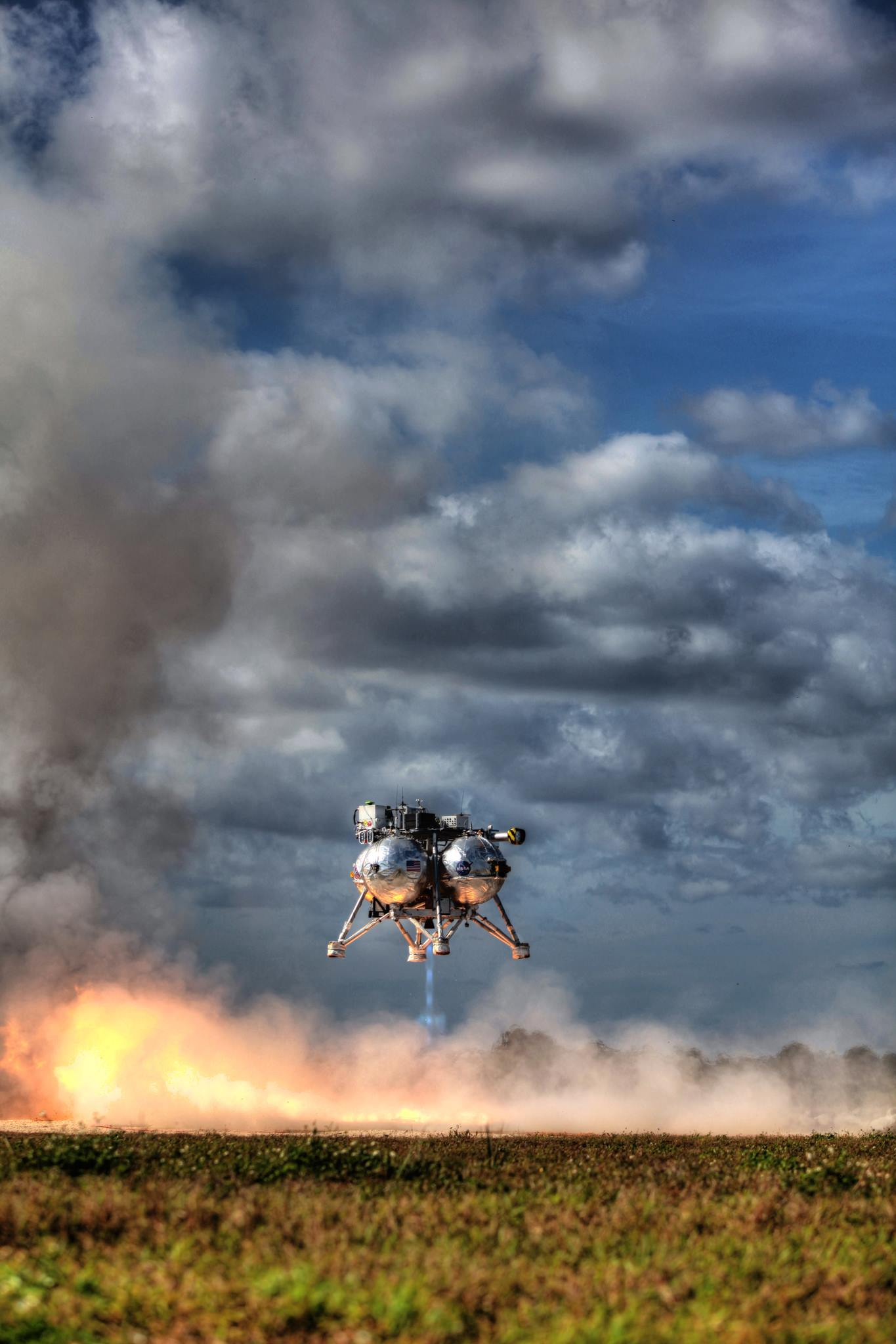 The first successful free flight of the Project Morpheus lander at the Kennedy Space Center, Tuesday December 10, 2013. Such vehicles can land 500 kg (half tonne) of cargo on the Moon.